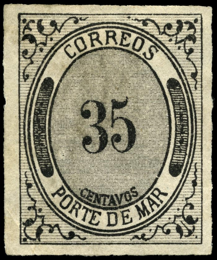 Mexico 35c Porte de Mar stamp of 1875. The purposes of the Porte de Mar system were: 1) to compensate packet ships for carrying mail to foreign ports, 2) to allow postal patrons to prepay maritime postage fees, and 3) to provide visible evidence that these fees had been paid. At the time of mailing, Porte de Mar stamps were placed (by the postal clerks) on the backs of envelopes in an amount equal to the required overseas postage and the mail was forwarded to Veracruz or Tampico. Mail packets were then placed on foreign ships to be transported to their ultimate destinations. The total value of the Porte de Mar stamps in each packet was calculated and that amount was paid to the ship’s captain (or agent) for carrying the mail. Arrangements were made with both English and French ships, and the postal patron had to specify which service was to be used. The stamps primarily functioned as internal accounting devices (contraseñas).